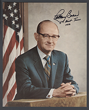 LaMar Baker.